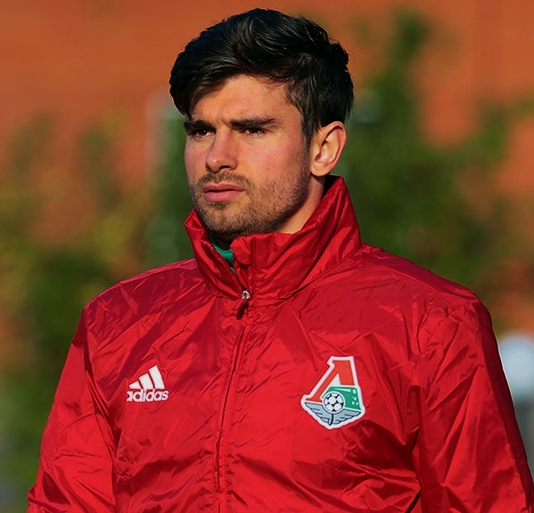 Nemanja Pejcinovic